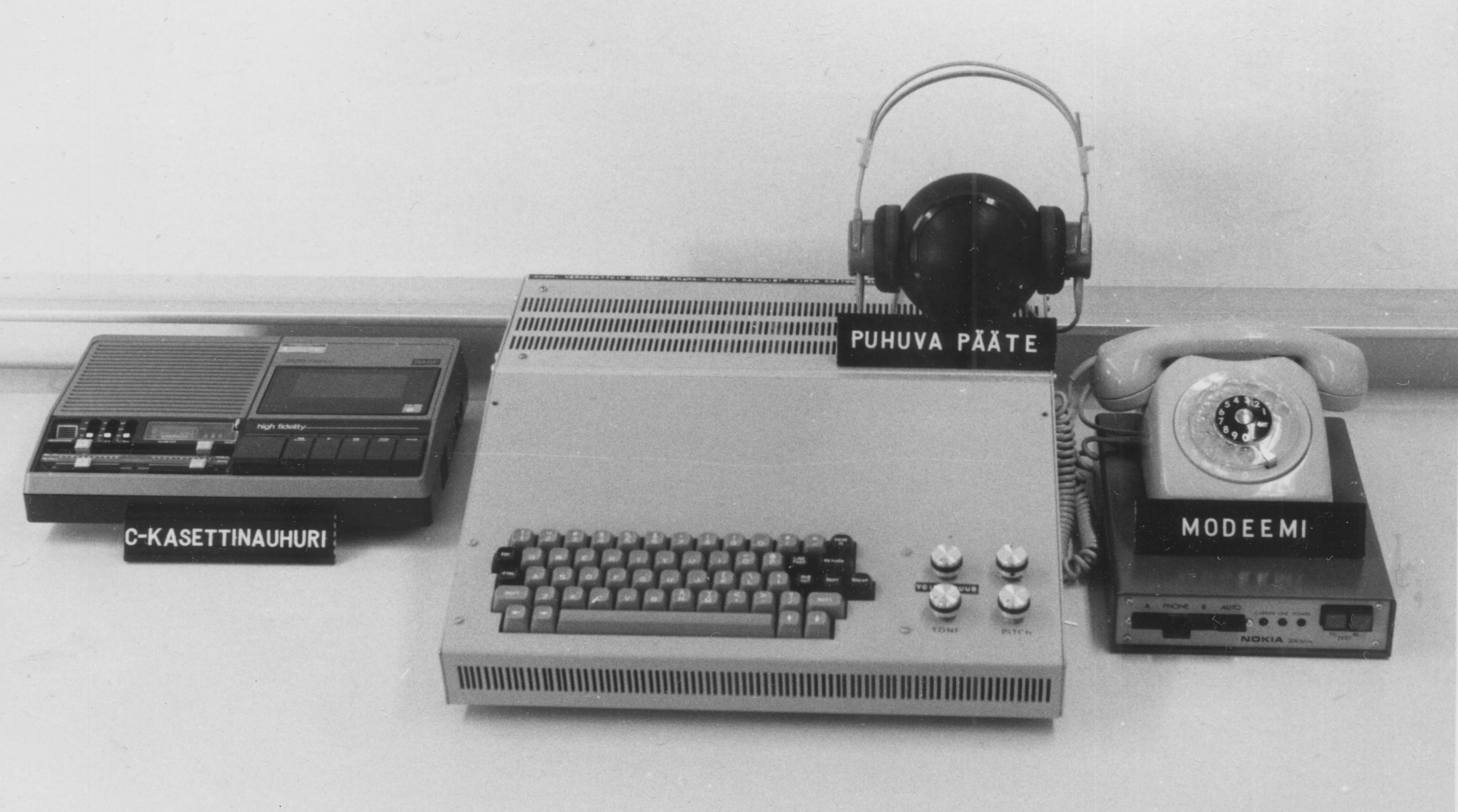 Talking computer terminal (1979) [1]